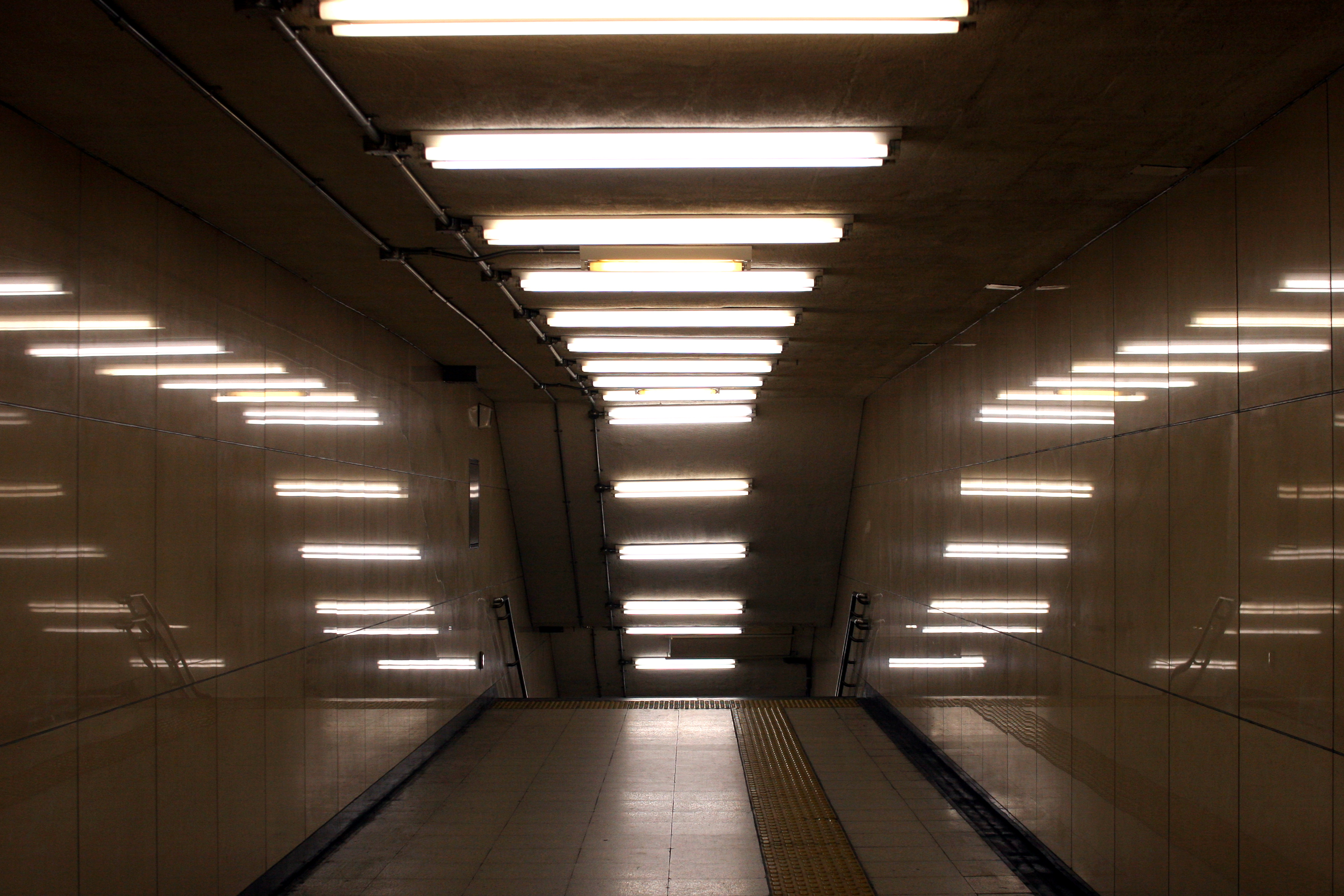 Thirty Fluorescent lamps with reflections giving the impression of many more lamps, in Shinbashi, Tokyo, Japan